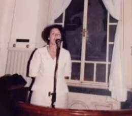 marivereadora